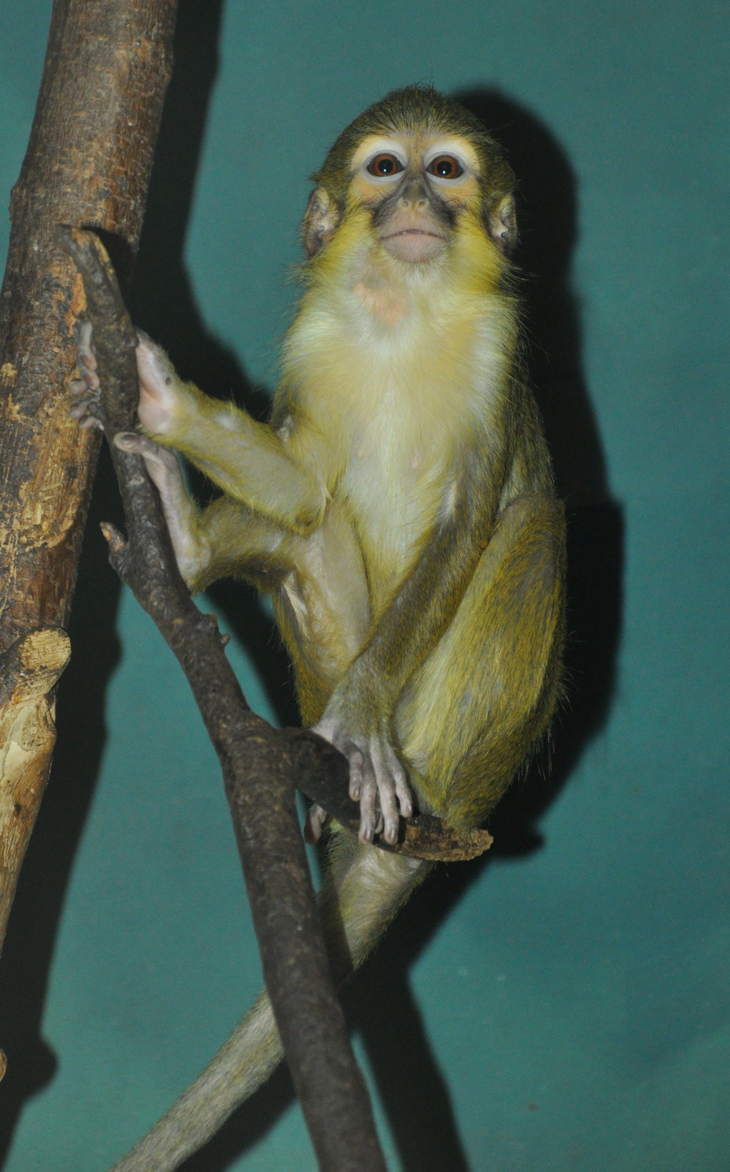 Miopithecus ogouensis at Prague Zoo.